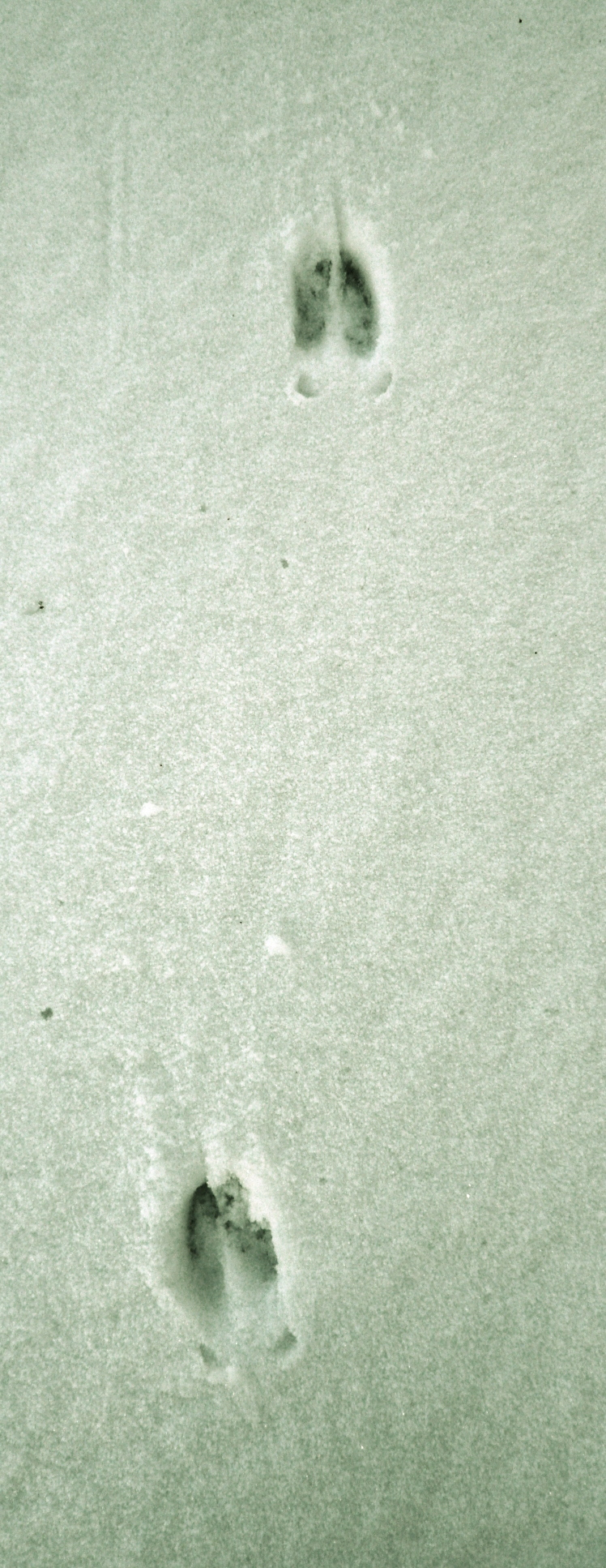 Trace of deer in snow